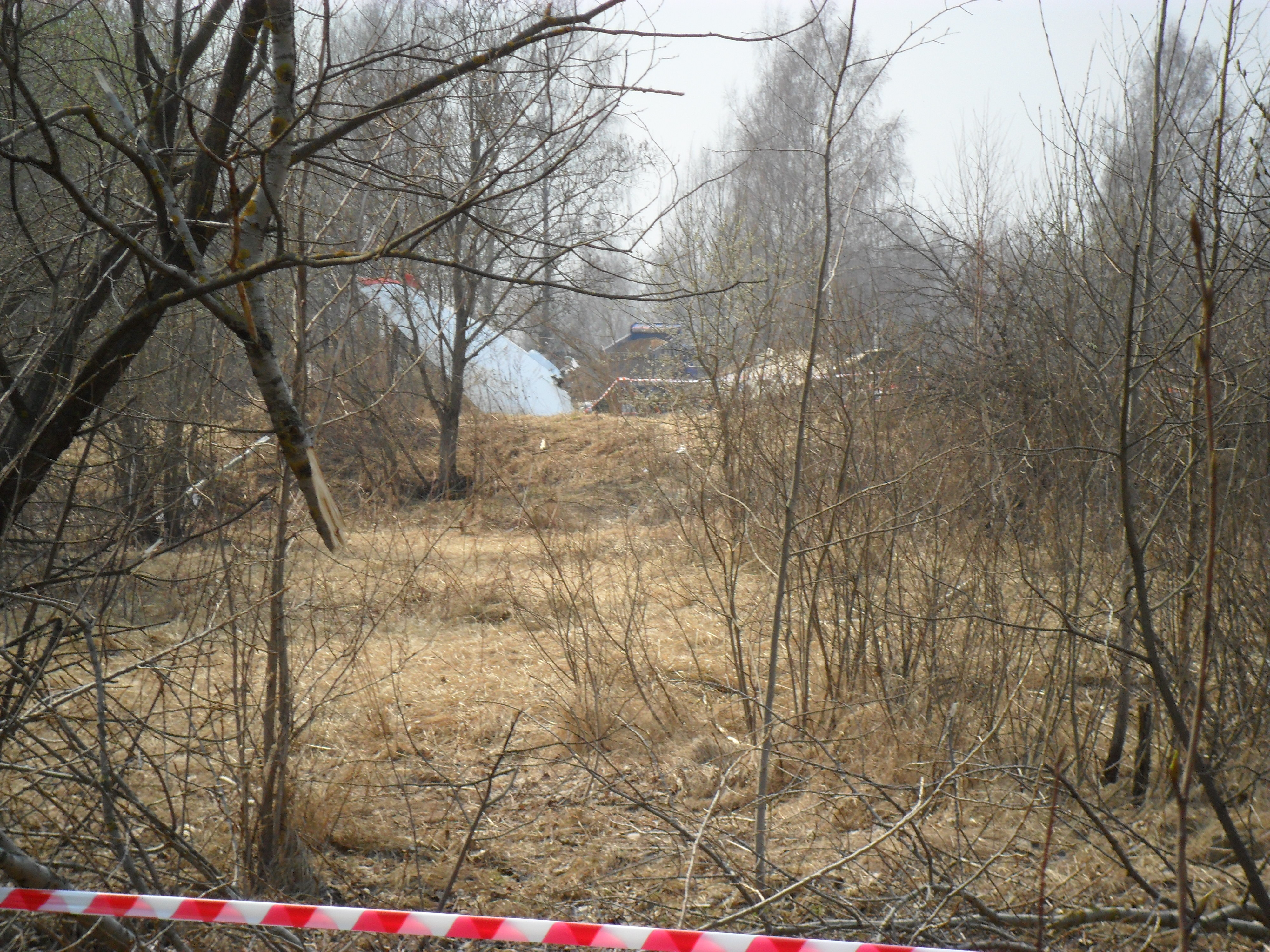 Photo from the area of the 2010 Polish Air Force Tu-154 crash, near Smolensk, Russia.